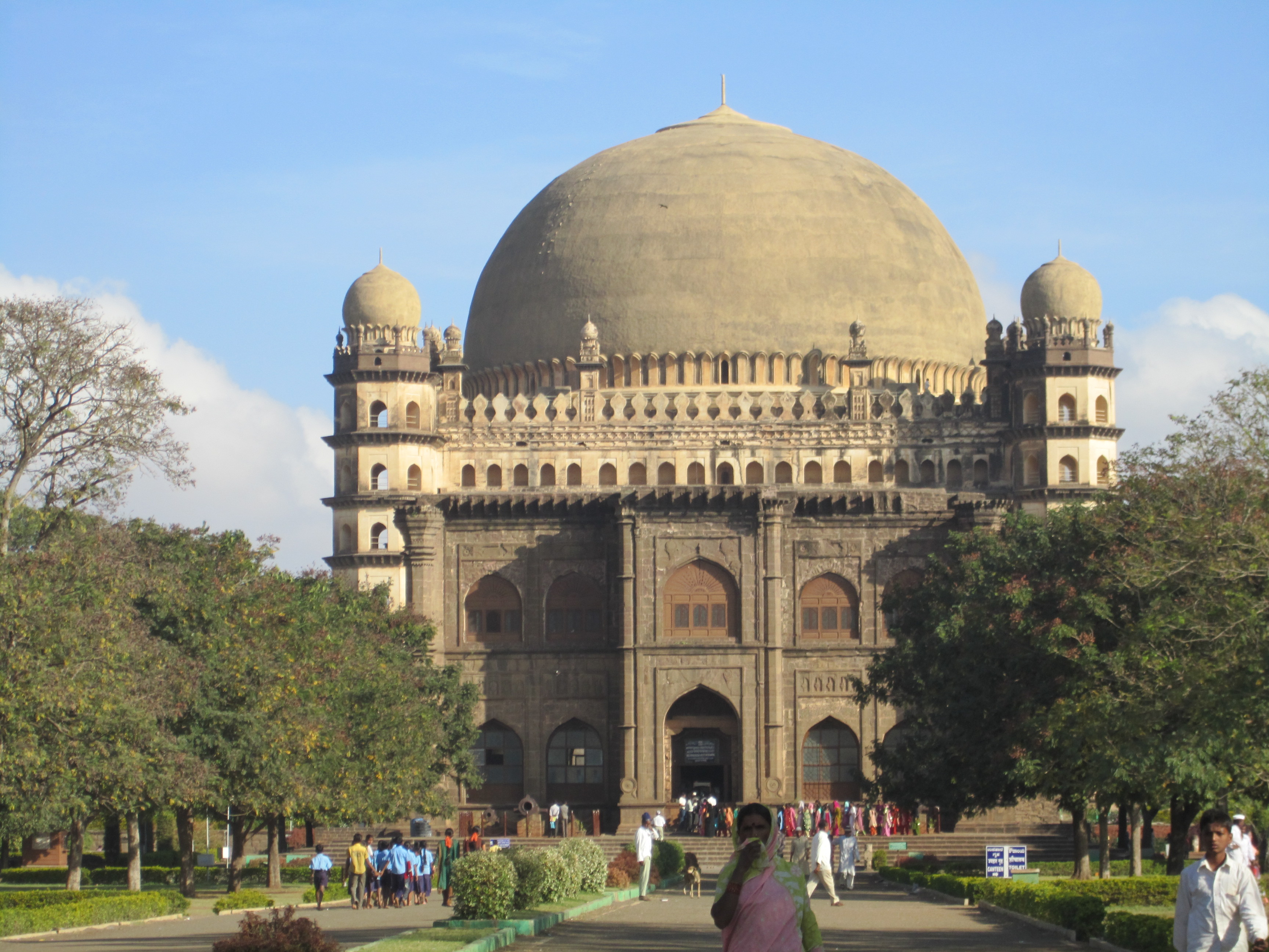 View from the main gate of Gol Gumbaz.